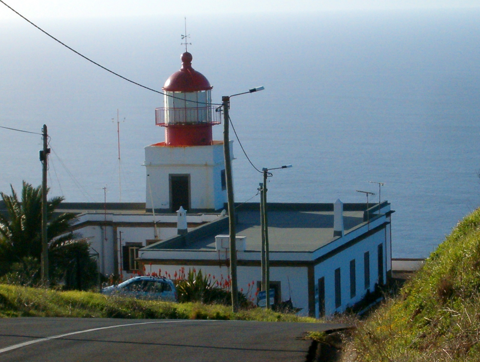 The Farol (lighthouse) in Ponta do Pargo, Madeira. At 32°48′46″N 17°15′42″W / 32.8129°N 17.2617°W. Next landfall west from here is Charleston, South Carolina.